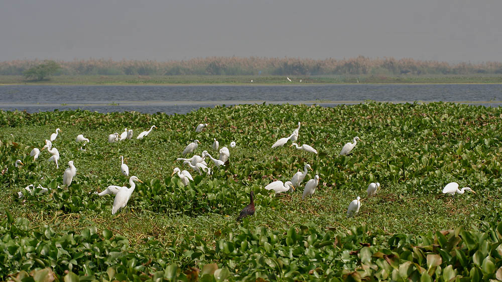 Egrets in Kolleru, Andhra Pradesh, India.